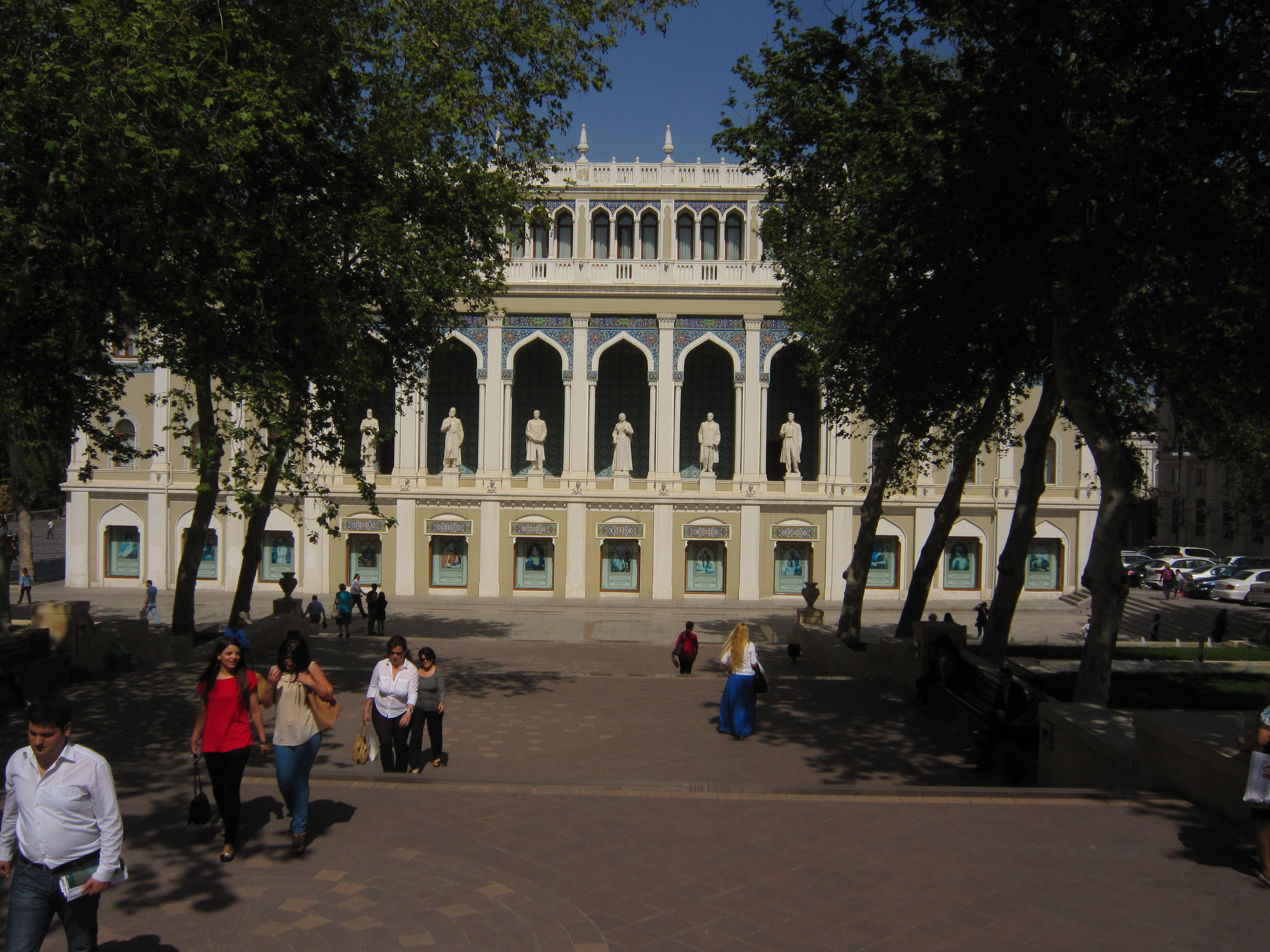 Stairs close to fontan square